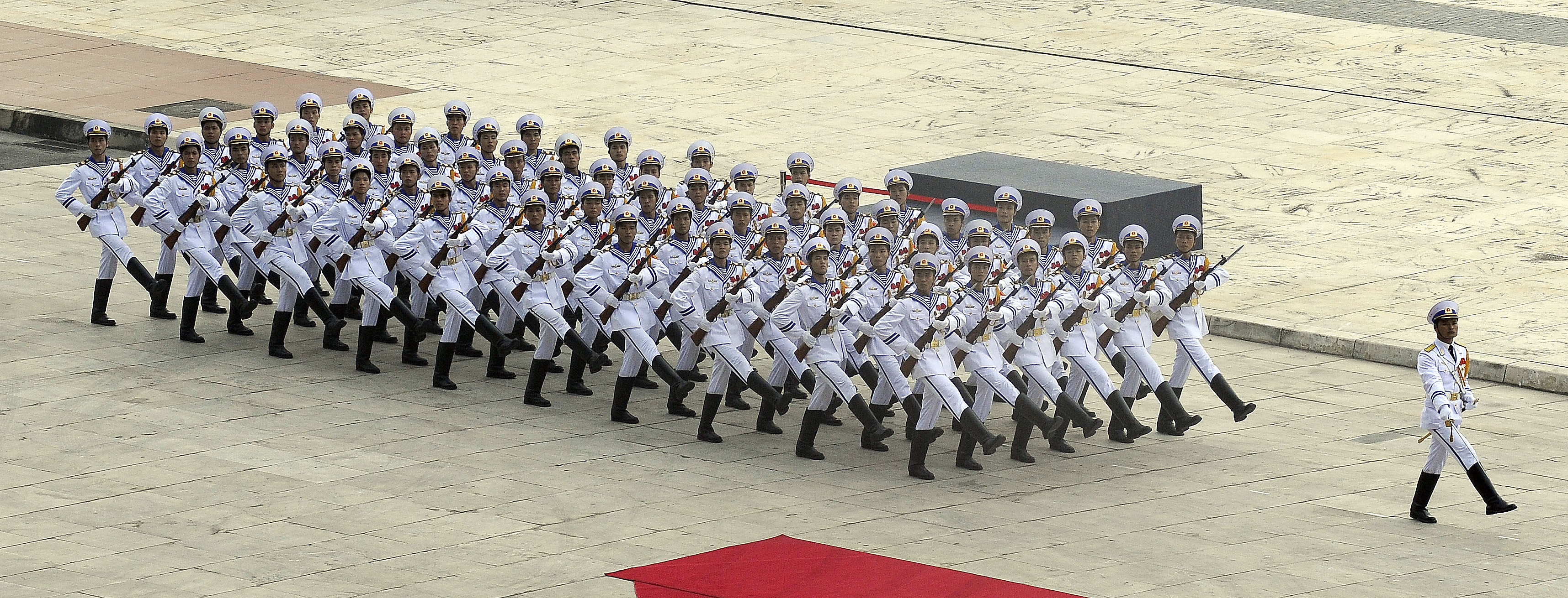 Members of the Vietnamese Guard of Honor conduct a troop review at the National Convention Center during the first “plus” defense ministers meeting of the Association of Southeast Asian Nations in Hanoi, Vietnam.